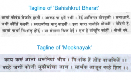 Tagline of 'Bahishkrut Bharat' was taken from 'Dnyaneshwari' and tagline of 'Mooknayak' was taken from 'Tukaramgatha'